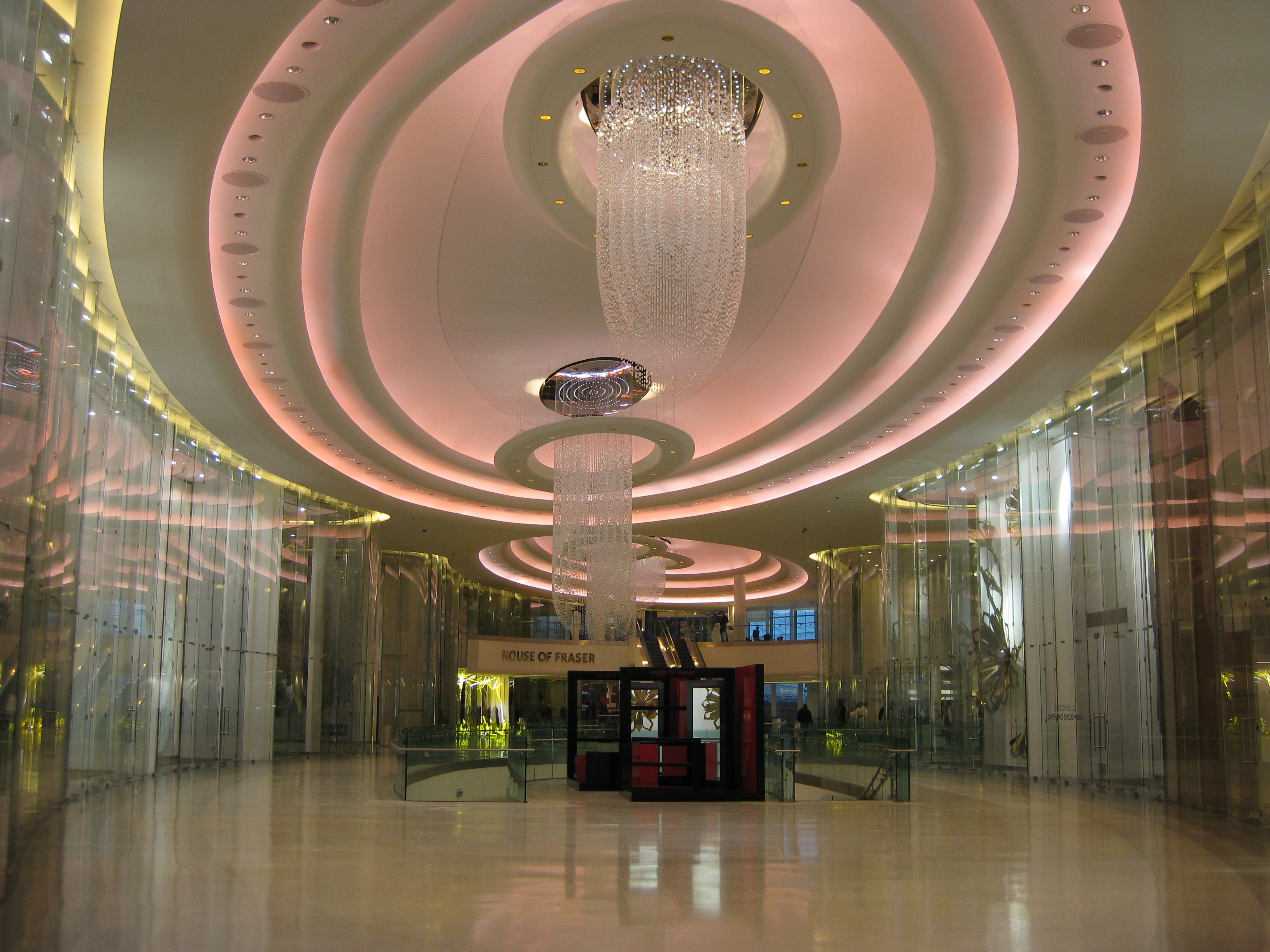 'The Village' at Westfield Shopping Centre, Shepherds Bush, London